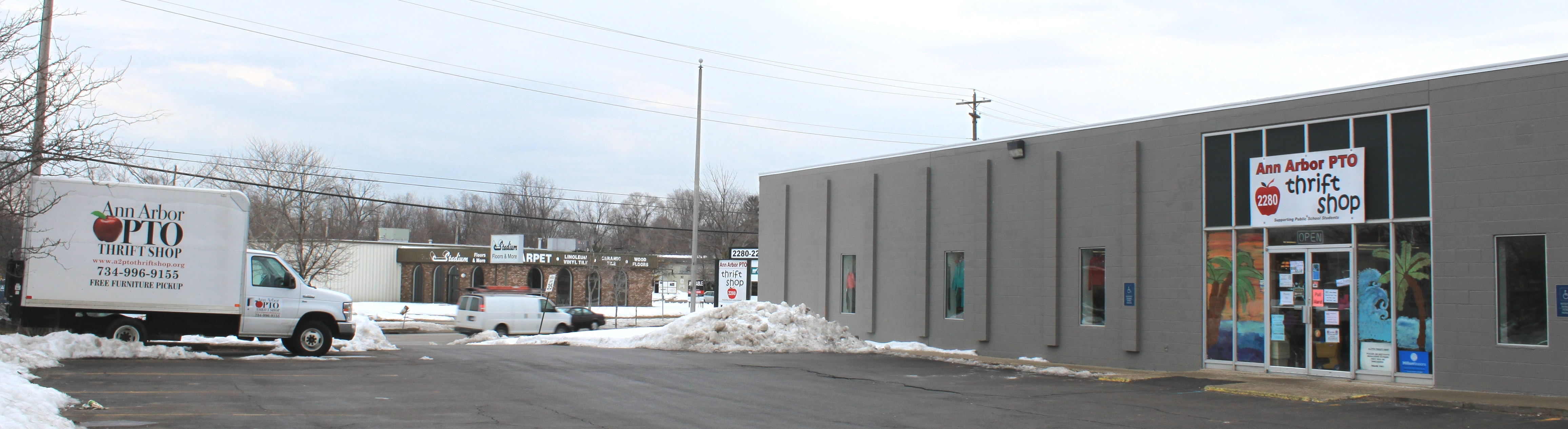 Parent Teacher Organization (PTO) Thrift Shop, 2280 South Industrial Highway, Ann Arbor, Michigan